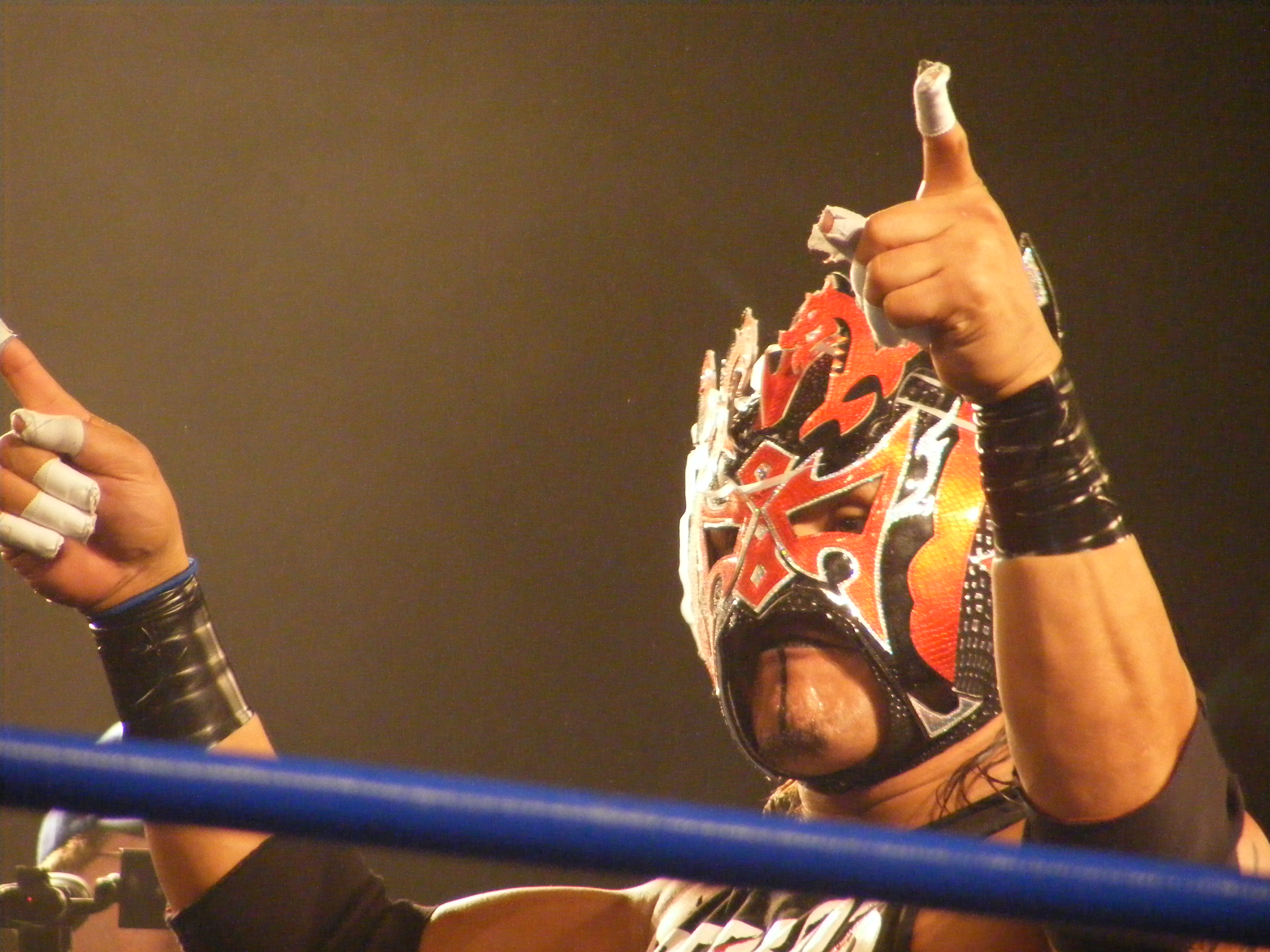 Professional wrestler El Oriental at a Chikara event on April 25, 2010